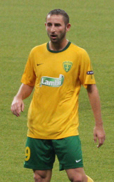 Emil Rilke